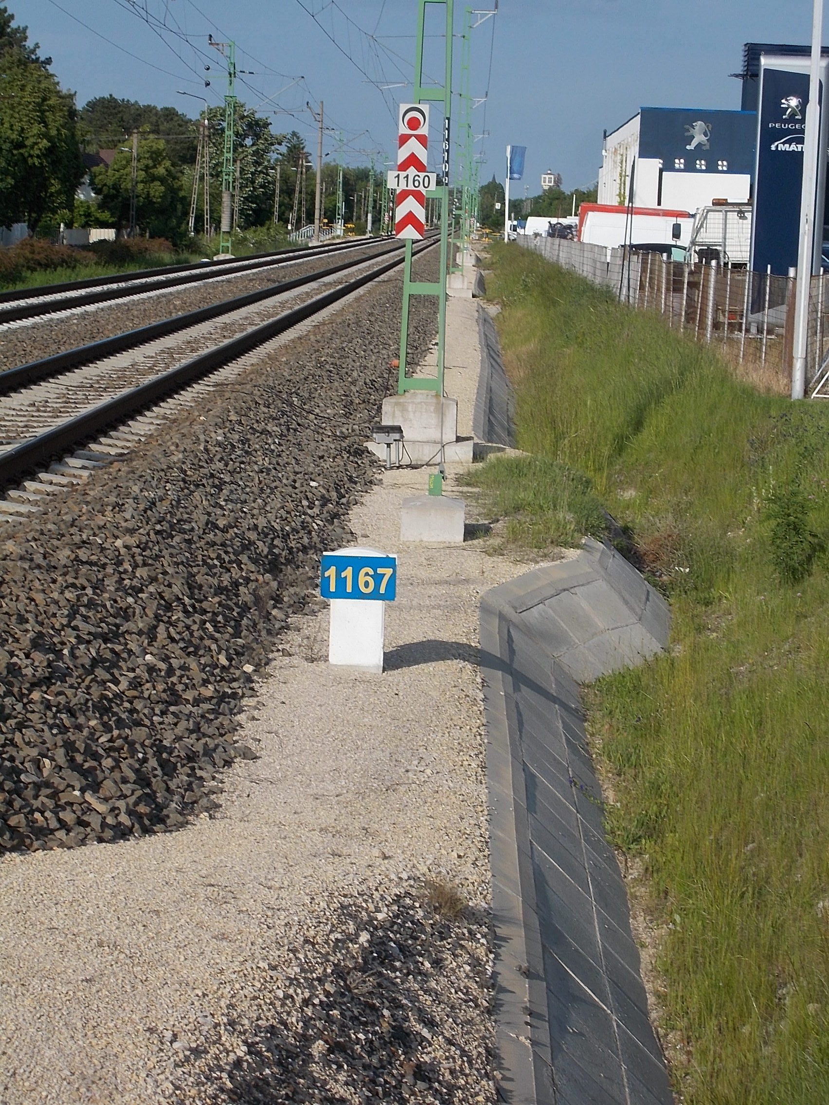 Level crossing between Vasút sor and Zamárdi utca. No. 1167 rail section sign and road-rail level crossing warning. On right a Peugeot dealerships (detail) at far the Water tower on the Main square- Balatonszéplak neighborhood, Siófok, Somogy County, Hungary.